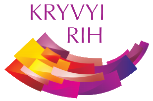 kryvyi Rih Logotype